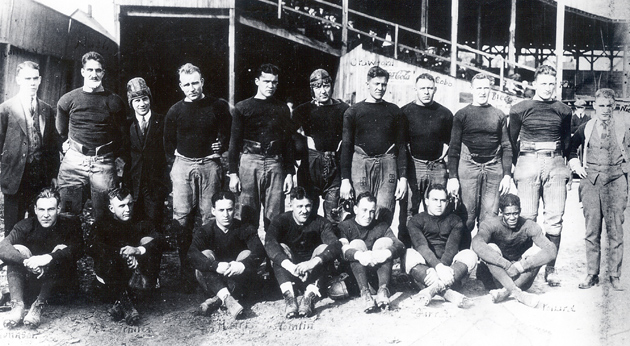 The Akron Pros football team posing after a game.